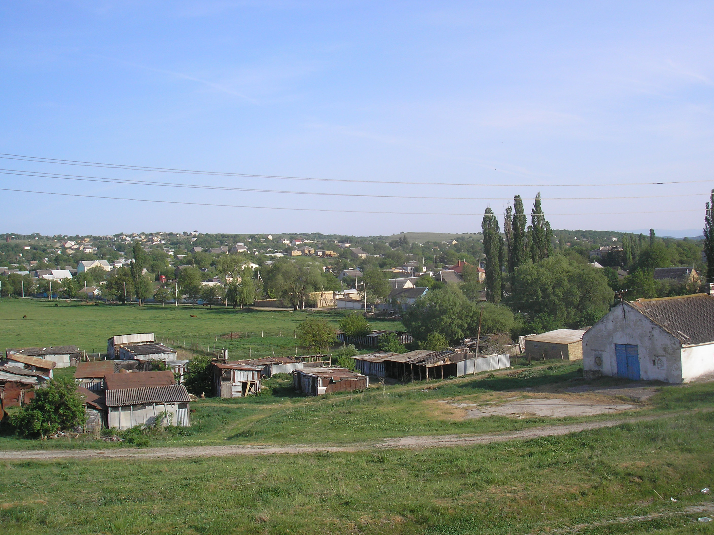 Village Partizanskoe, Simferopol district, Crimea